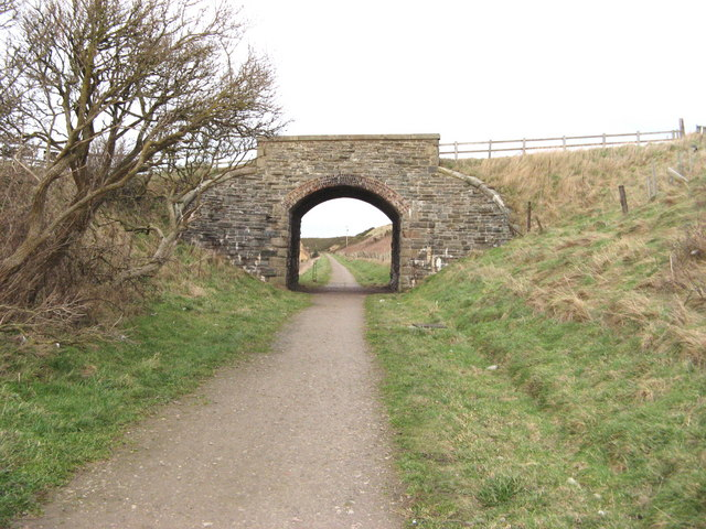 Bridge over dismantled railway at Portgordon Another bridge crossing GNSR dismantled line. You can still see the blackening caused by smoke at the top of the arch! This is now part of the Moray Coastal trail.